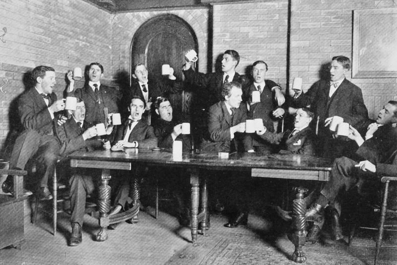 1907 Iris: "To U of B, to U of B, our Alma Mater by the sea", University Archives, 1907